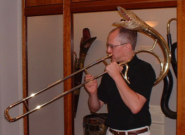 Photo of Douglas Yeo, Bass Trombonist of the Boston Symphony, playing a buccin by Sautermeister, c. 1830 (modern reproduction slide after historical models by James Becker) taken in Symphony Hall, Boston. Instruments in the display case in the background include a "basson Russe" ("Russian bassoon", a form of upright serpent with a zoomorphic head) and an upright military serpent "(Piffault" style).